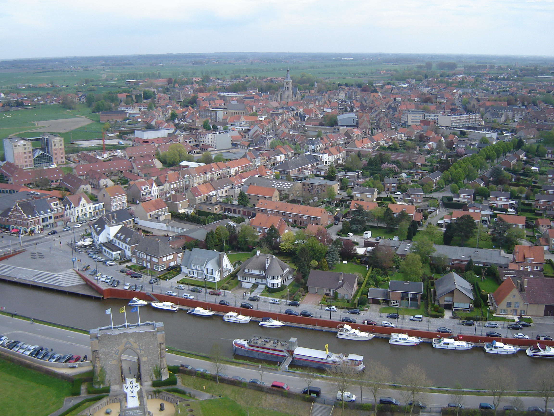 View of the city of Diksmuide along the river Yzer, seen from the IJzertoren (Yzer Tower). Diksmuide, West Flanders, Belgium